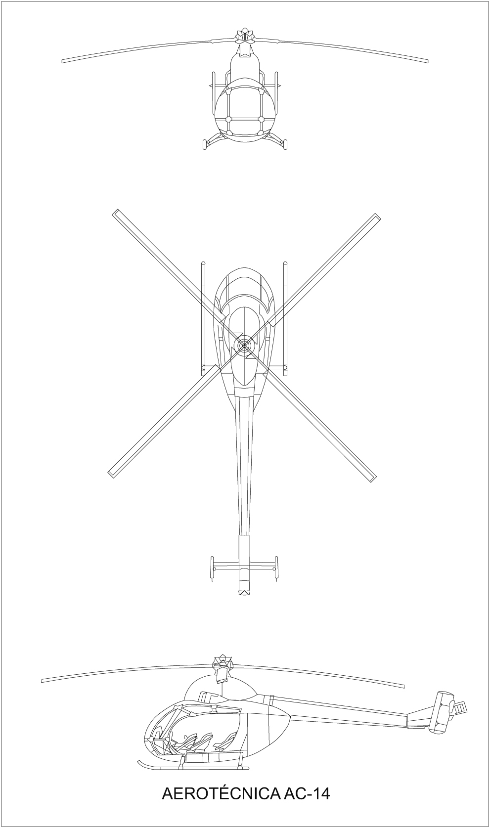 I am the author of this picture, and I'd desire everybody could see it freely in Wikipedia. Dabrio 03:00, 9 August 2007 (UTC)